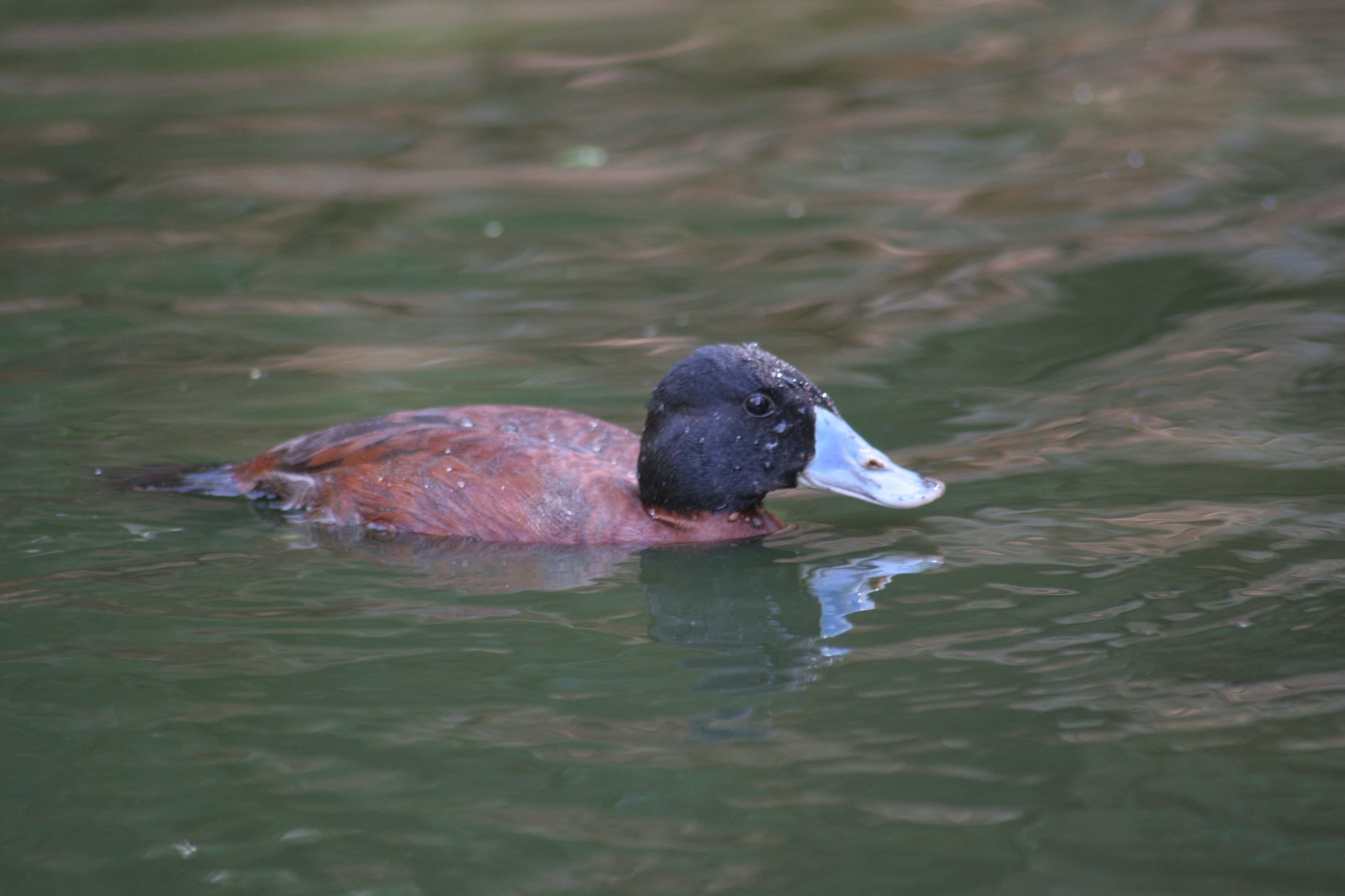 Maccoa Duck, Oxyura maccoa, South Africa